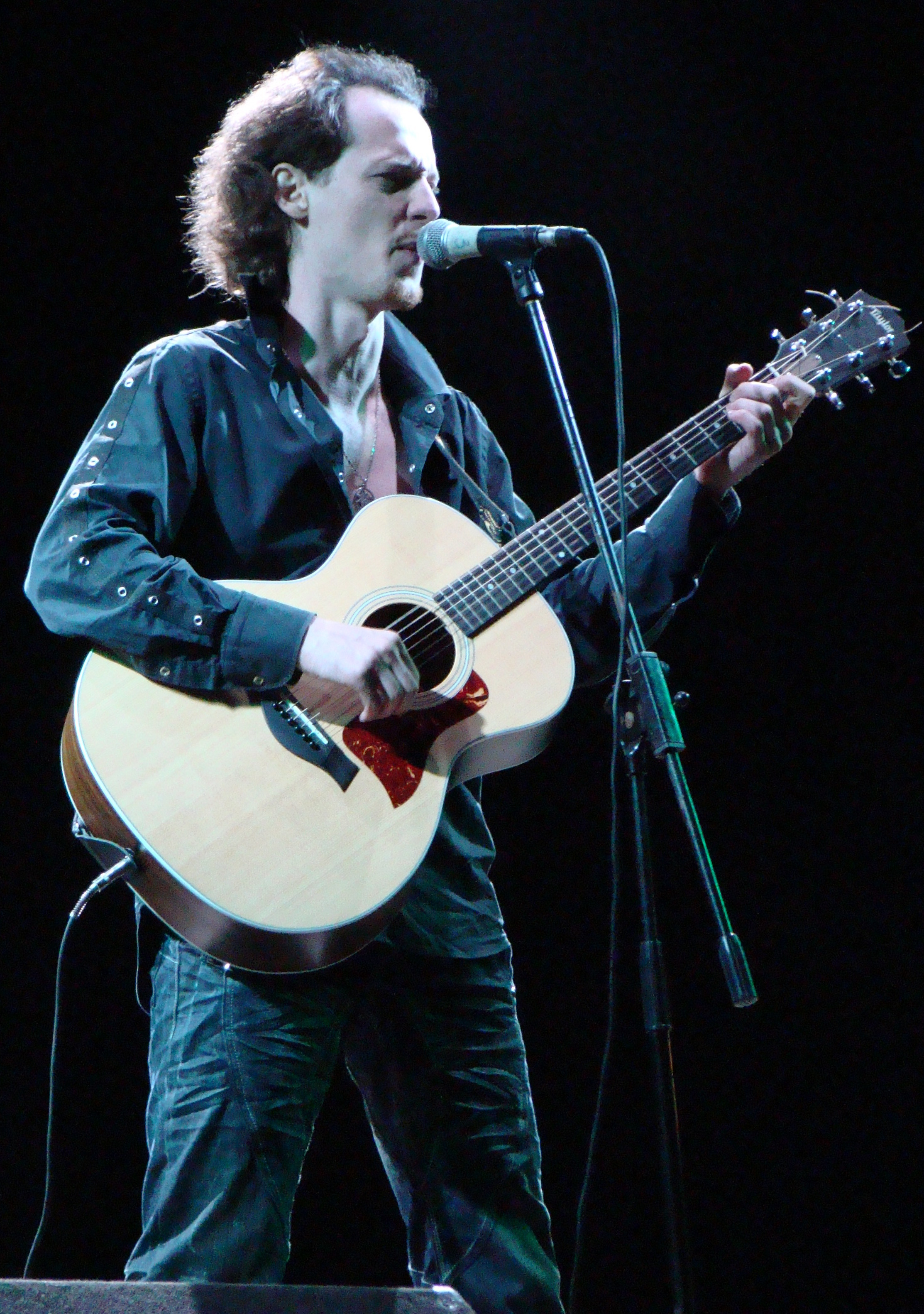 Serhij Vasyljuk, vocalist of the band "Tinj Soncja" (during the Pidkamin festival 2011).